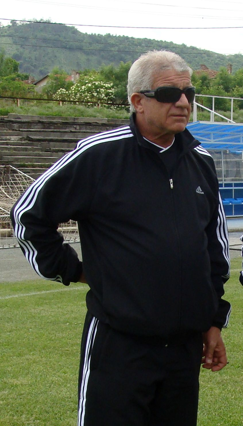 Yordan Dimitrov - Bulgarian general (ret.), stadium "Slivnishki geroi", Slivnitsa.